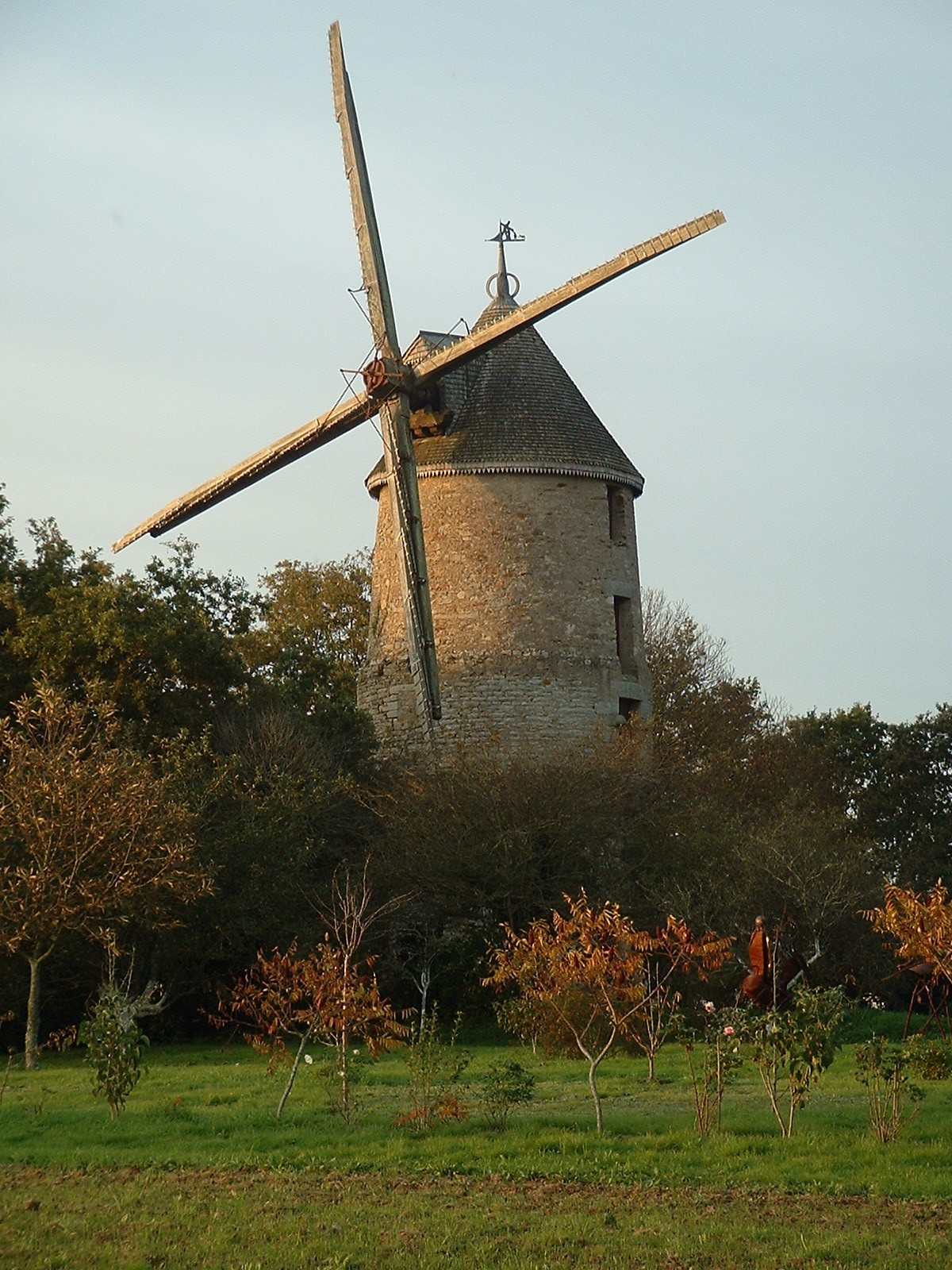 the mill of "La Paquelais" in the town of Savenay, France